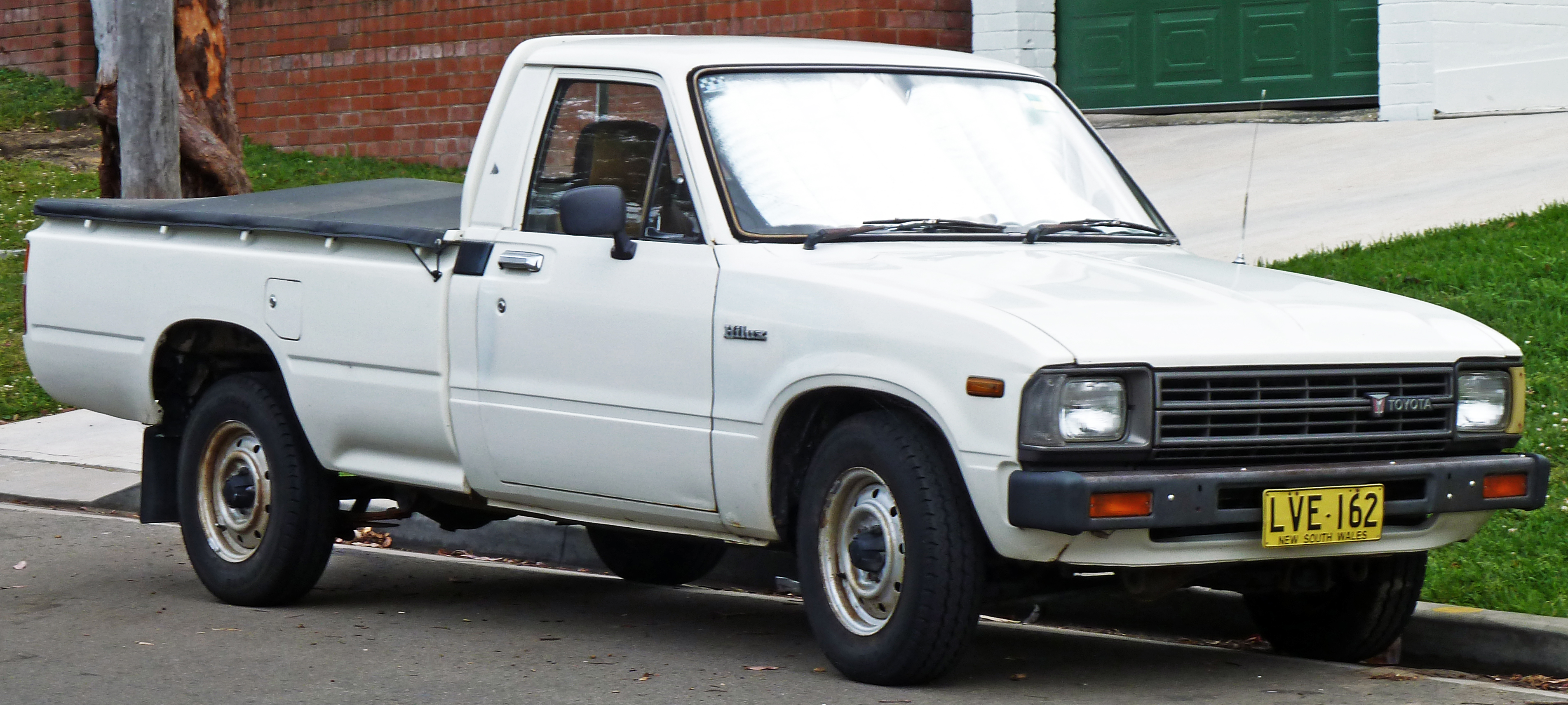 1982 Toyota HiLux 2-door utility, with a 1983–1988 Toyota HiLux 2-door utility cargo bed. Photographed in Gymea Bay, New South Wales, Australia.